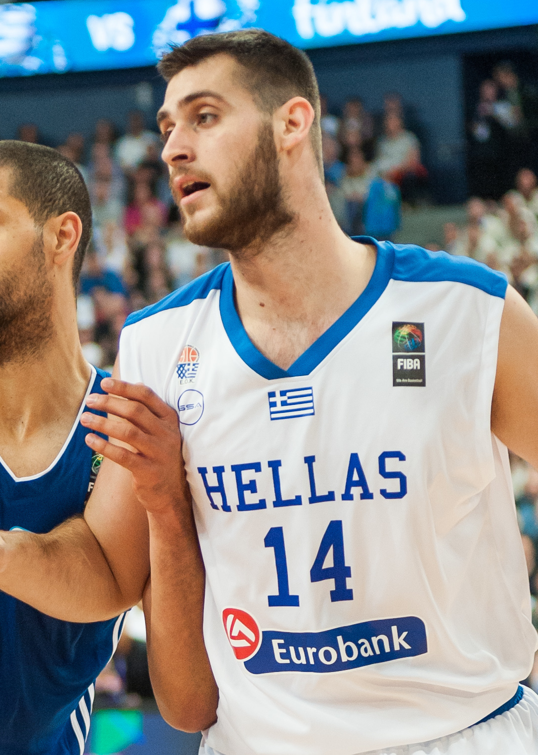 EuroBasket 2017 Group A game between Greece and Finland at Hartwall Arena in Helsinki, Finland.